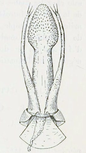 Leptodirus hochenwartii penis